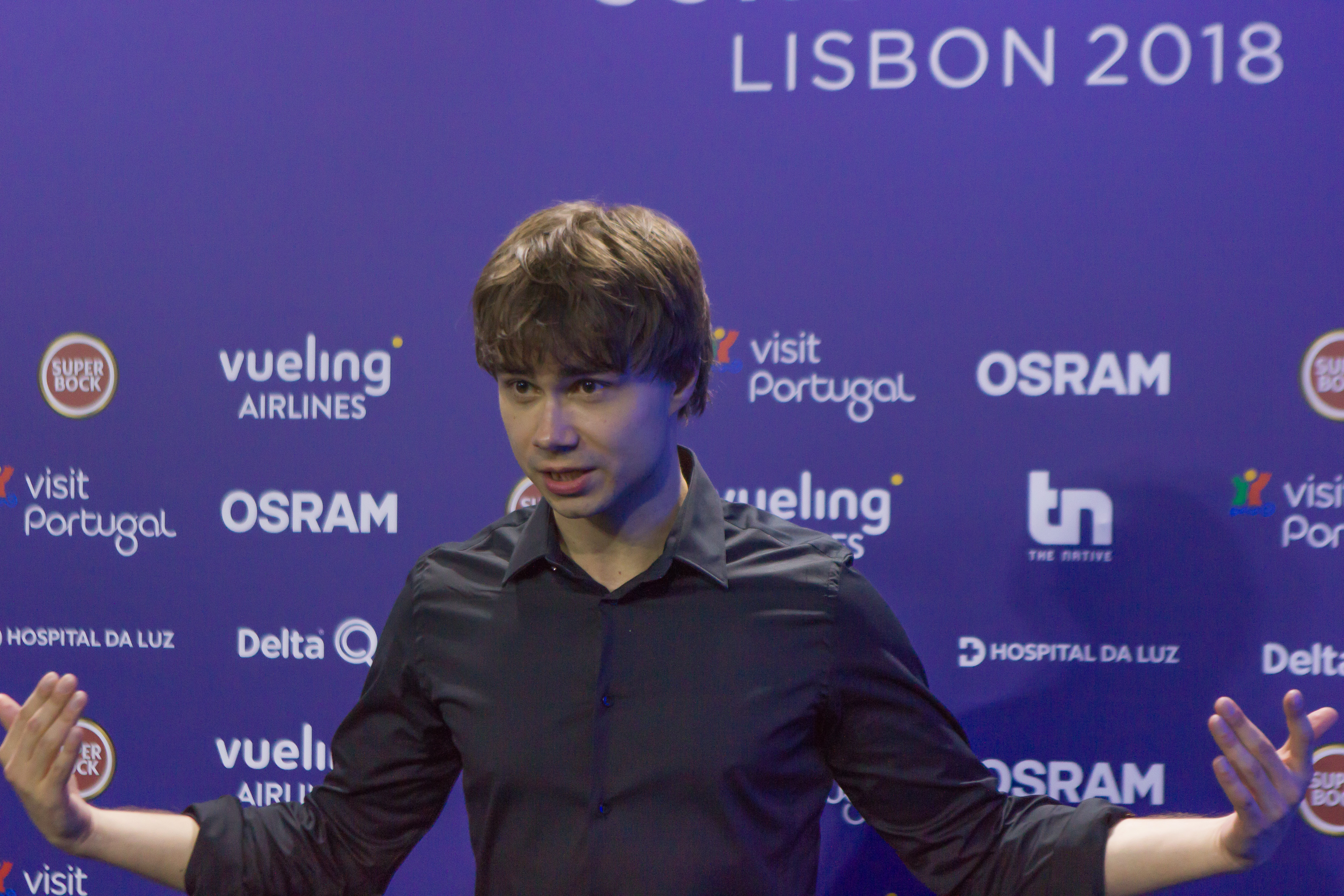 At the 2018 Semi Final 2 qualifiers press conference